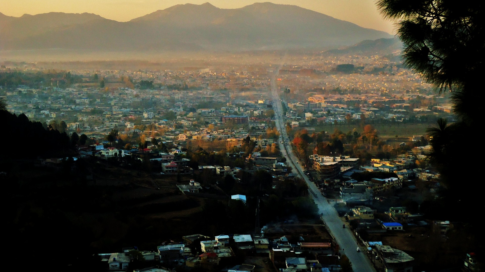 Exotic View of Abbotabad through one of hills which surround this beautiful valley